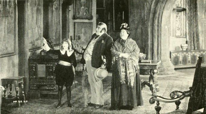 Still from the film Little Lord Fauntleroy (1921) with Mary Pickford, James A. Marcus, and Kate Price, on page 248 of Peter Milne, Motion Picture Directing; The Facts and Theories of the Newest Art (1922).